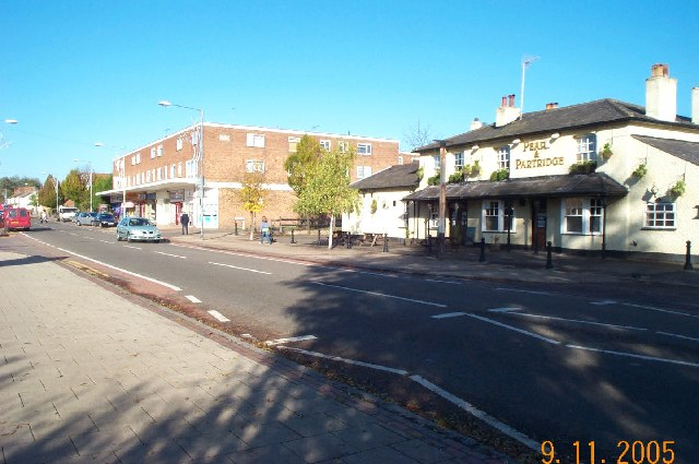 London Colney: High Street. This street used to be part of the old A6 trunk road from London to Carlisle, but London Colney now has a by-pass and the A6 now starts in Luton.